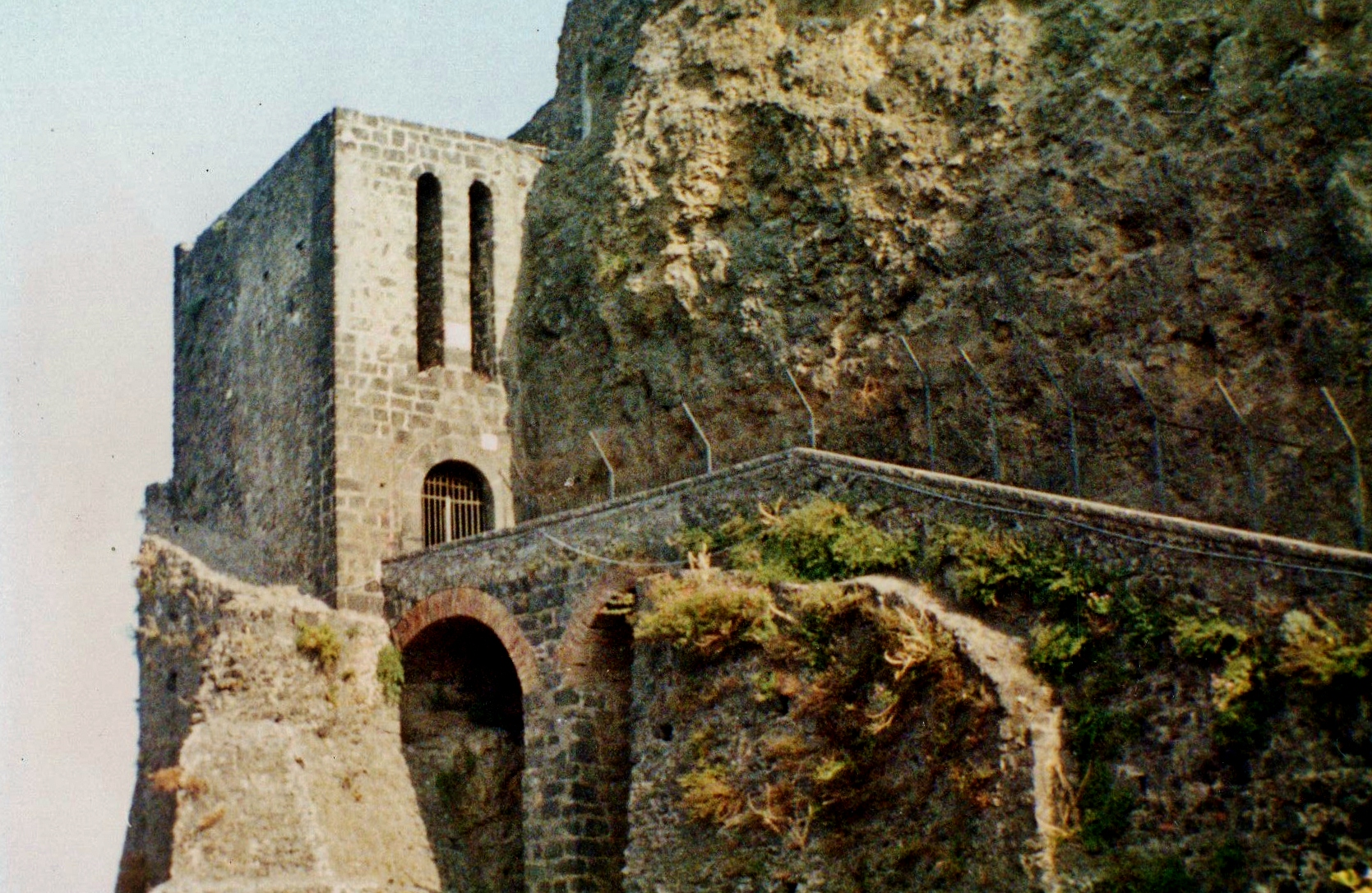 Section of Aci Castello, Sicily